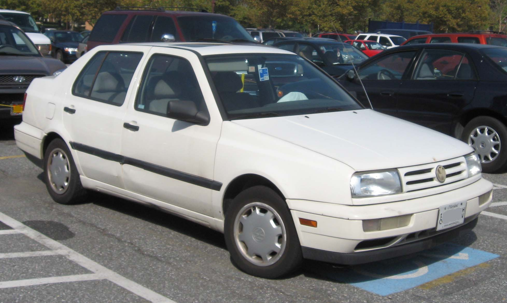 1993-1995 Volkswagen Jetta photographed in Hyattsville, Maryland, USA.